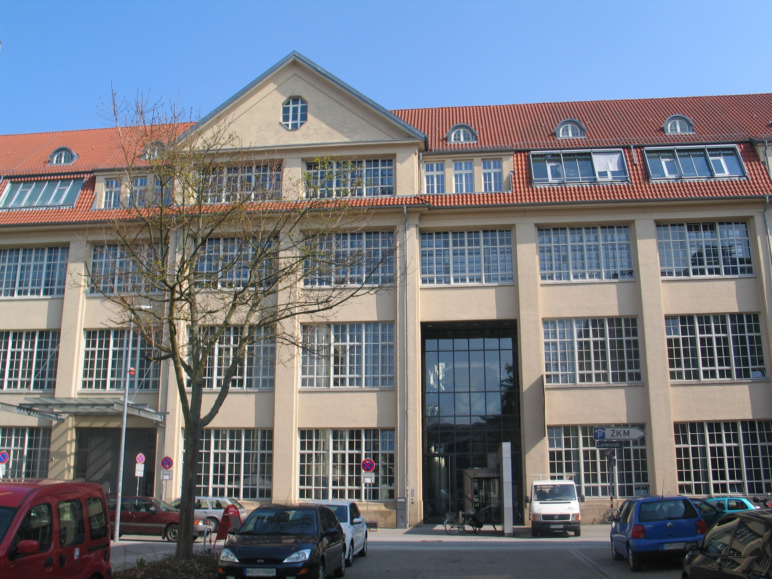 Entry of the Karlsruhe University of Arts and Design (HfG)